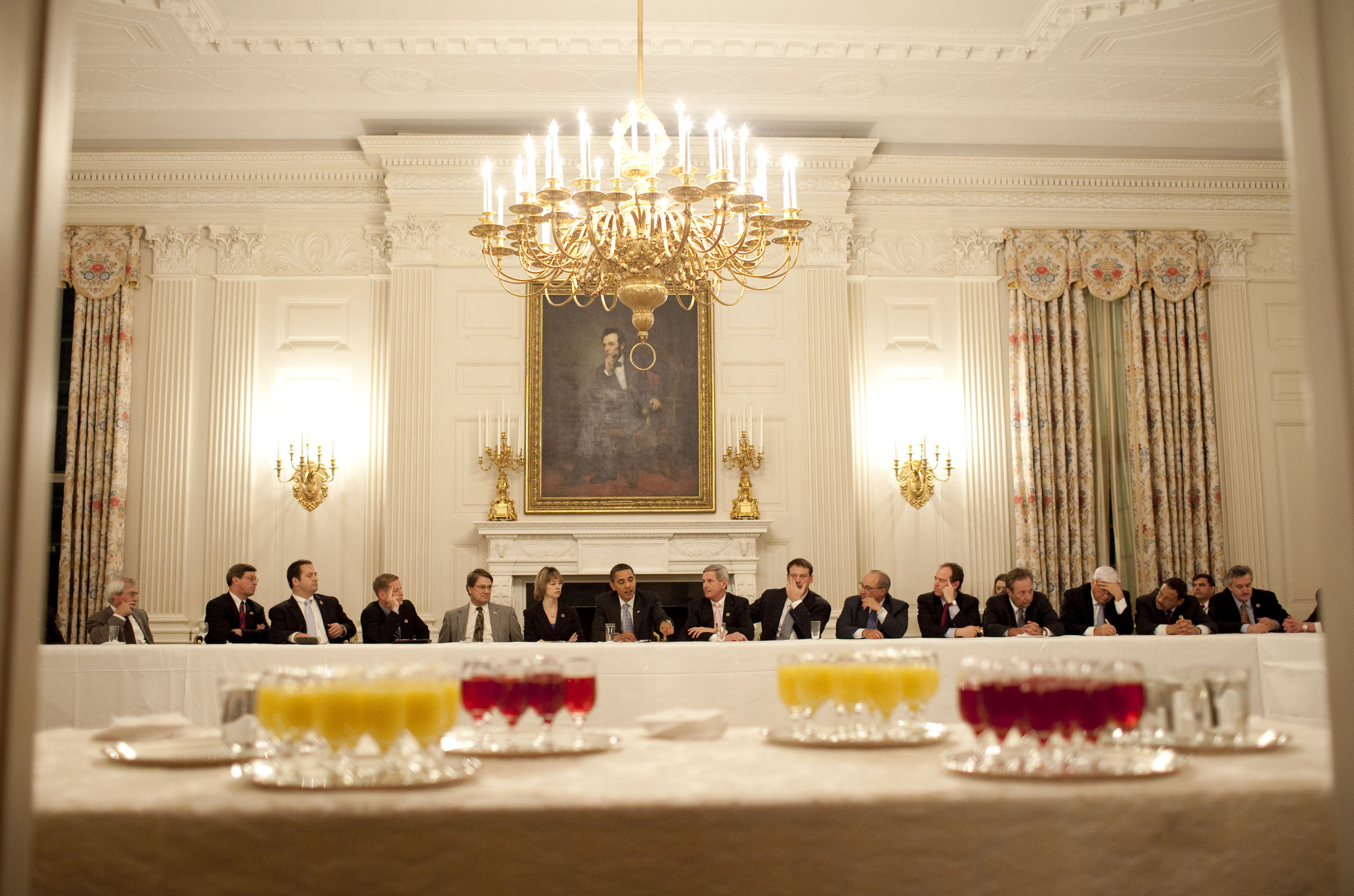 “The President meets with the Democratic Blue Dog coalition in the State Dining Room. I had noticed the glasses of cranberry and orange juice sitting on a table in the doorway of the Red Room, so I backtracked to compose this picture from inside the Red Room.” (Official White House photo by Pete Souza)